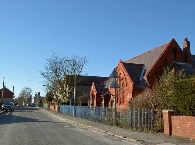 Reedness redbrick Wesleyan chapel, Reedness, East Riding of Yorkshire, England.Dated 1904.